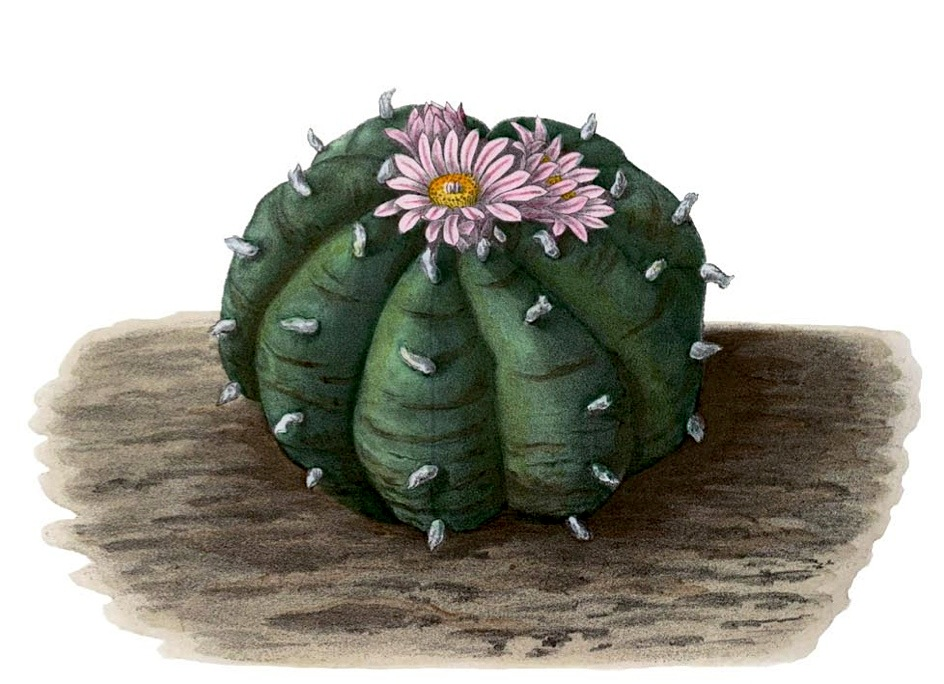 Lophophora williamsii